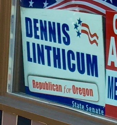 Republican Party headquarters of Jackson County, Oregon, with campaign signs of various Republicans seeking election to office.